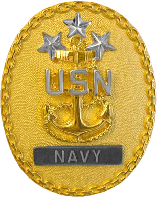 MCPON Badge